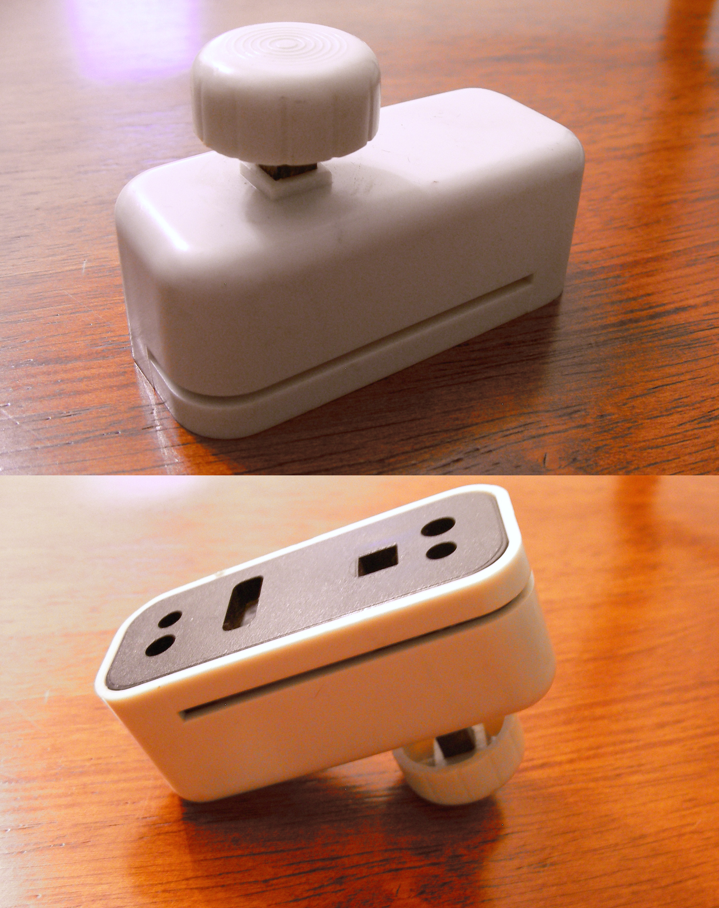 Square hole punch used for 5 1/4 inch floppy disks.